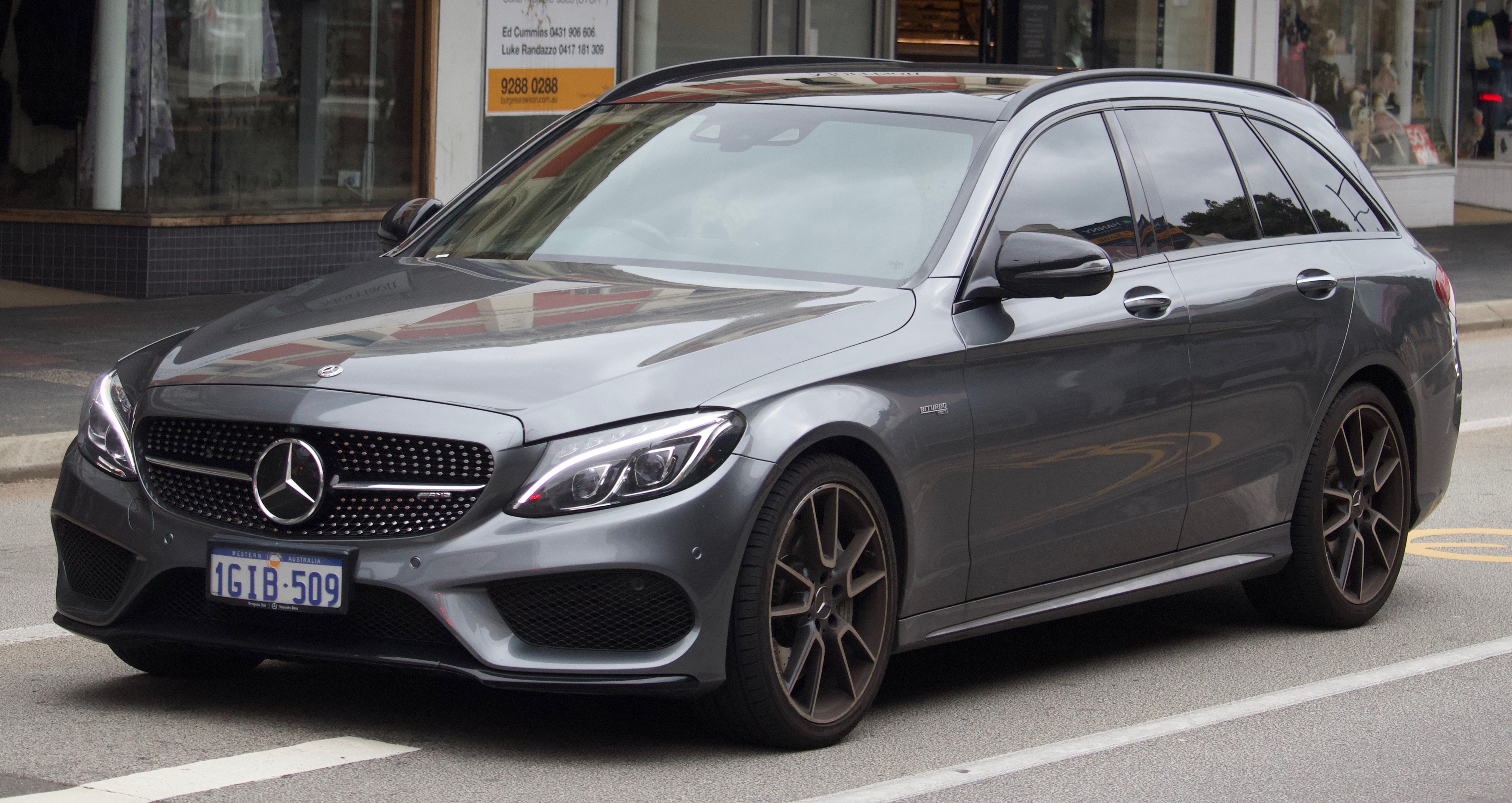 2017 Mercedes-Benz C 43 AMG (S 205) station wagon. Photographed in Fremantle, Western Australia, Australia.